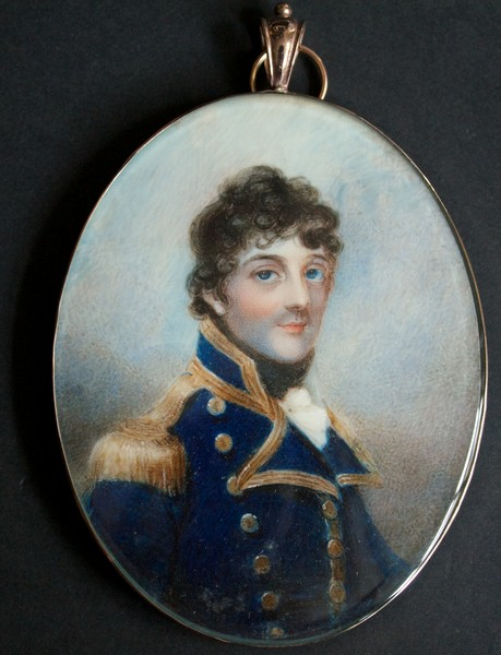 George Stewart 8th Earl of Galloway, wearing the naval uniform of post-captain (1795-1812). Watercolour on ivory.